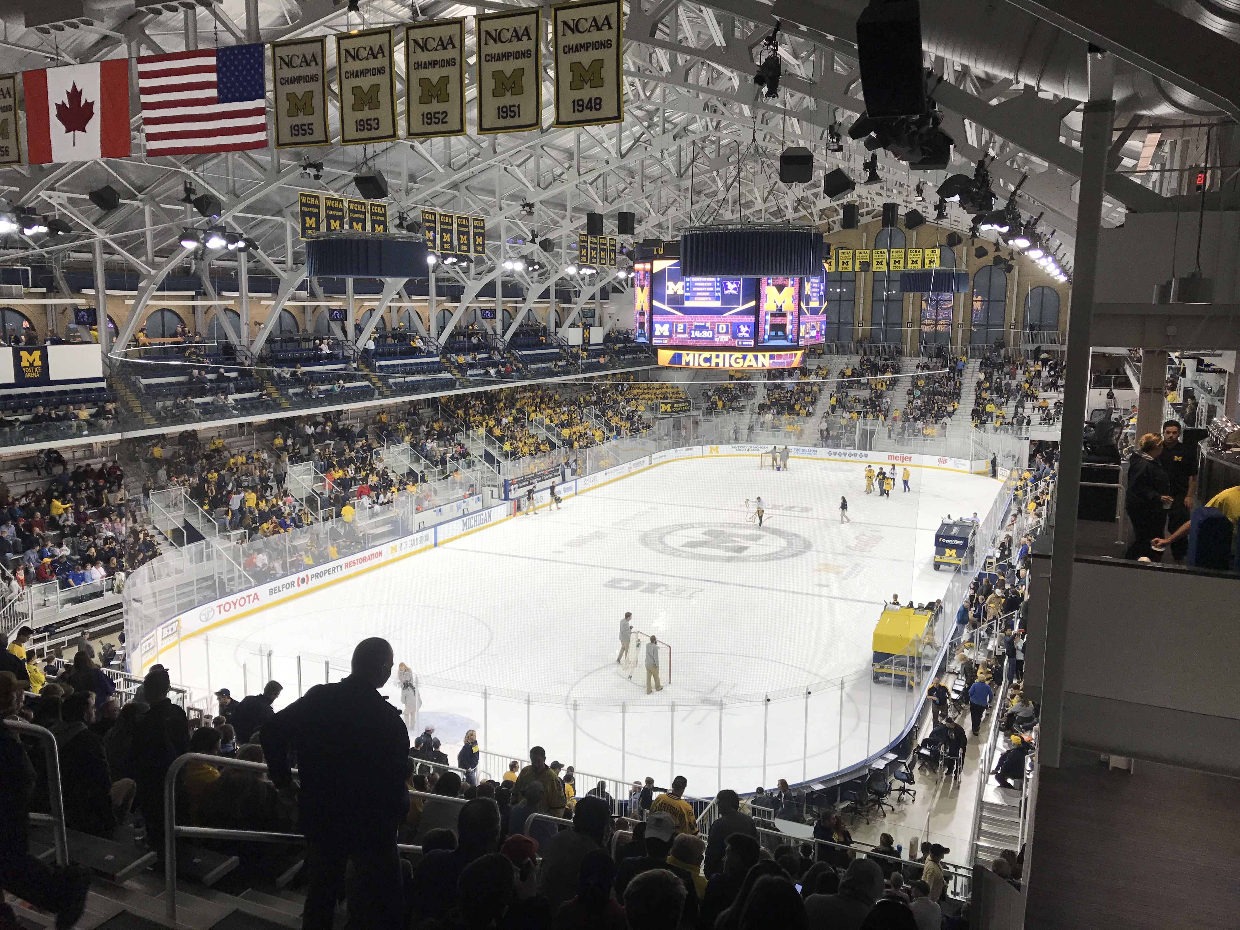 Michigan Ice Hockey Game During Intermission at Yost Ice Arena